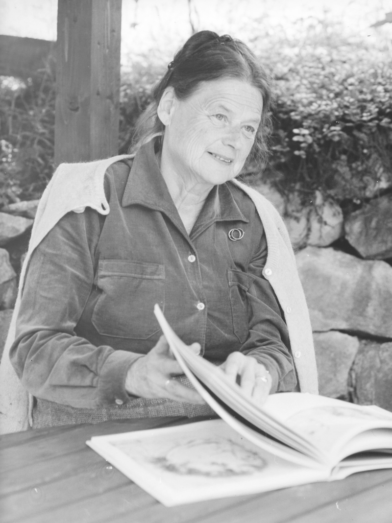 The photo shows the german author Helma Cardauns